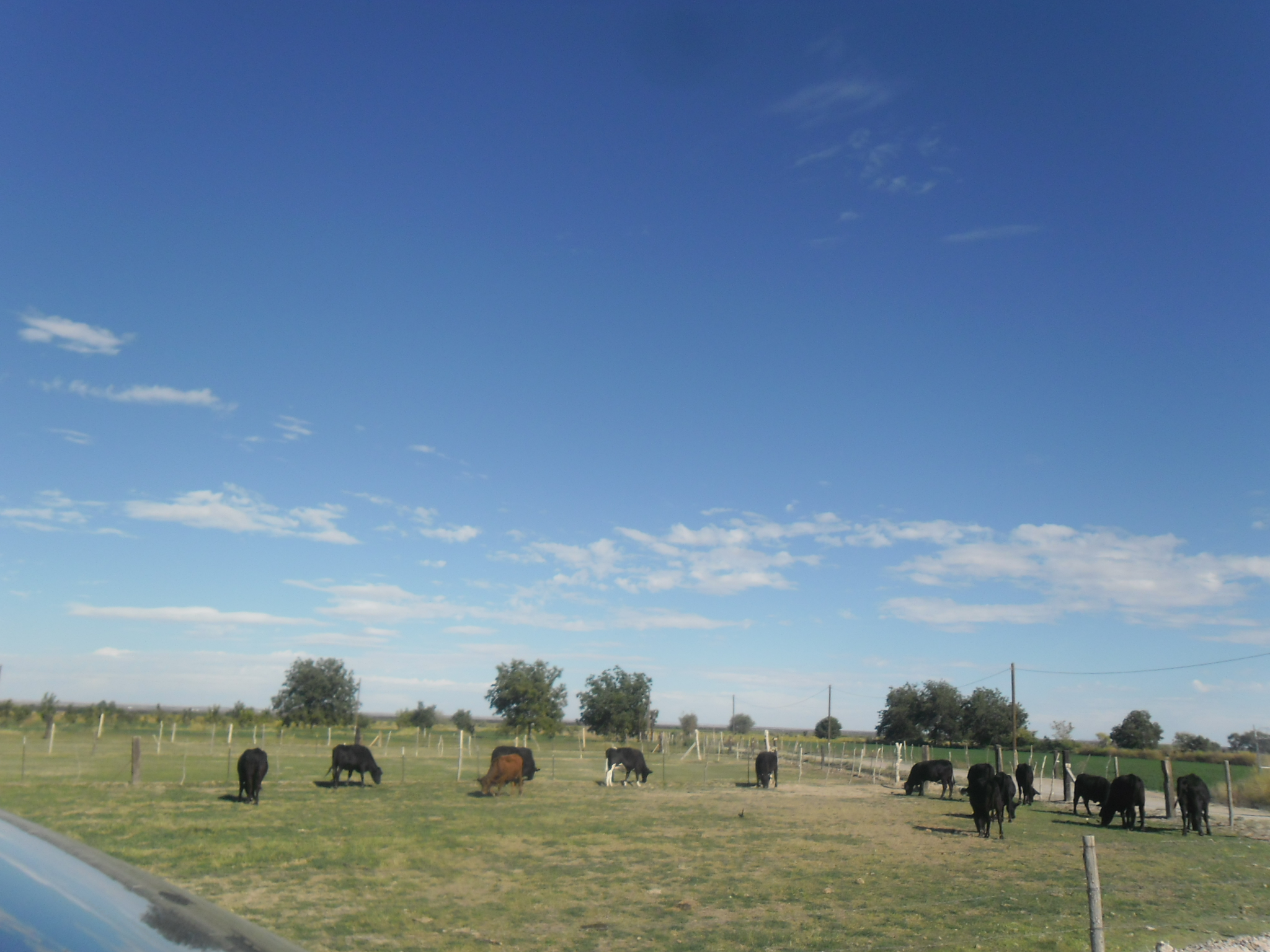 juarez